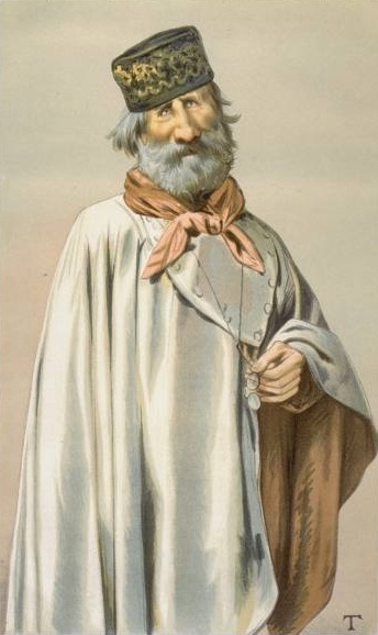 Caricature of Giuseppe Garibaldi (1807-1882). Caption read "Revolution".